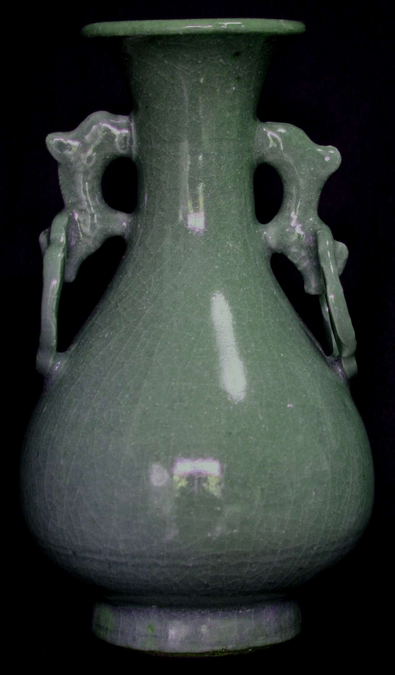 A Chinese Song Dynasty celadon vase dated to the 13th century. Personal photo released into public domain.